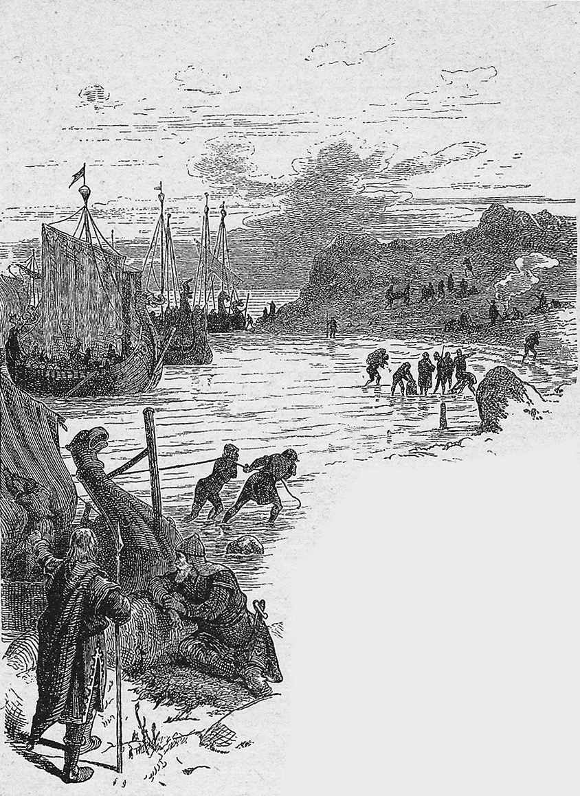 Legendary Disembarquement of king Skiold's Danish fleet in Jutland